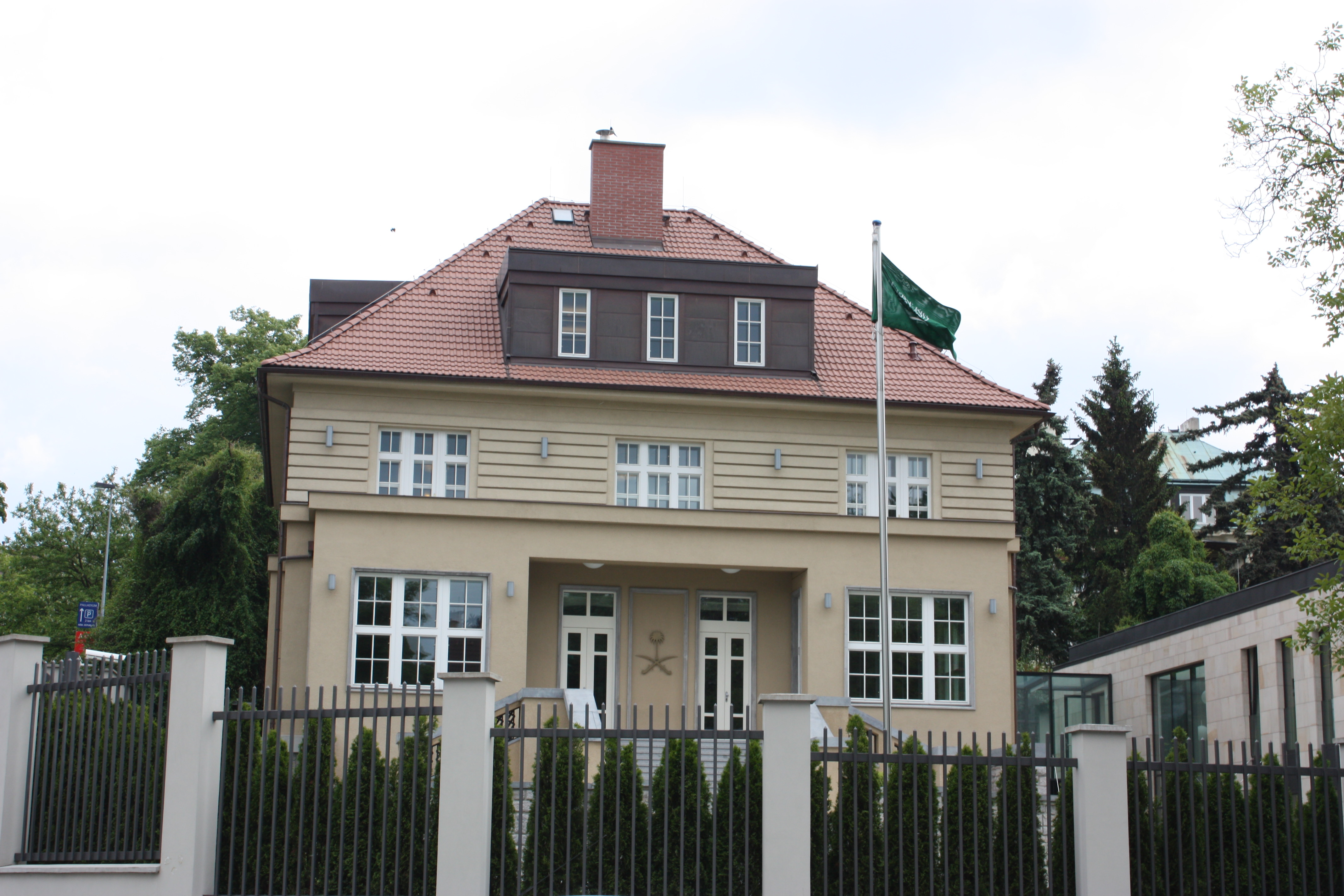 Embassy of Saudi Arabia in Prague, Korunovační 622/35, Praha 6 – Bubeneč, Czechia.